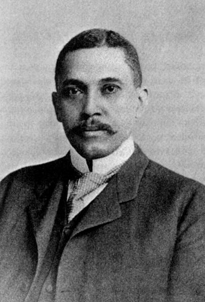 African American writer Wilford H. Smith